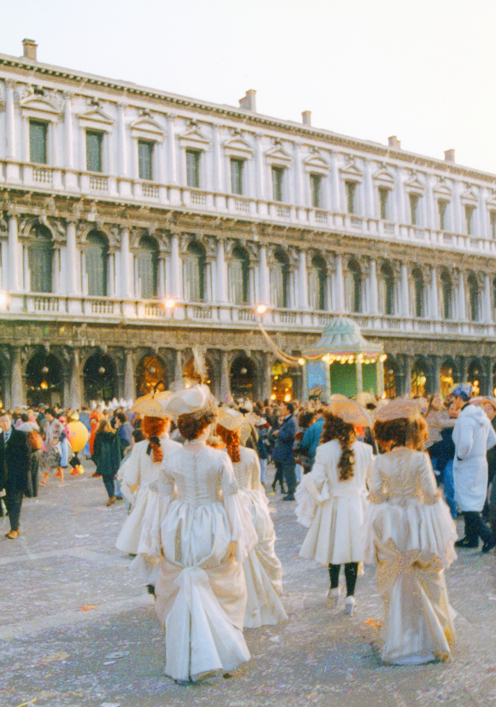 This shows the buildings known as the Procuyratie Nuove on the south side of the Piazza San Marco in Venice built by Scamozzi c.1580. Picture taken during Carnival, hence the dresses in foreground